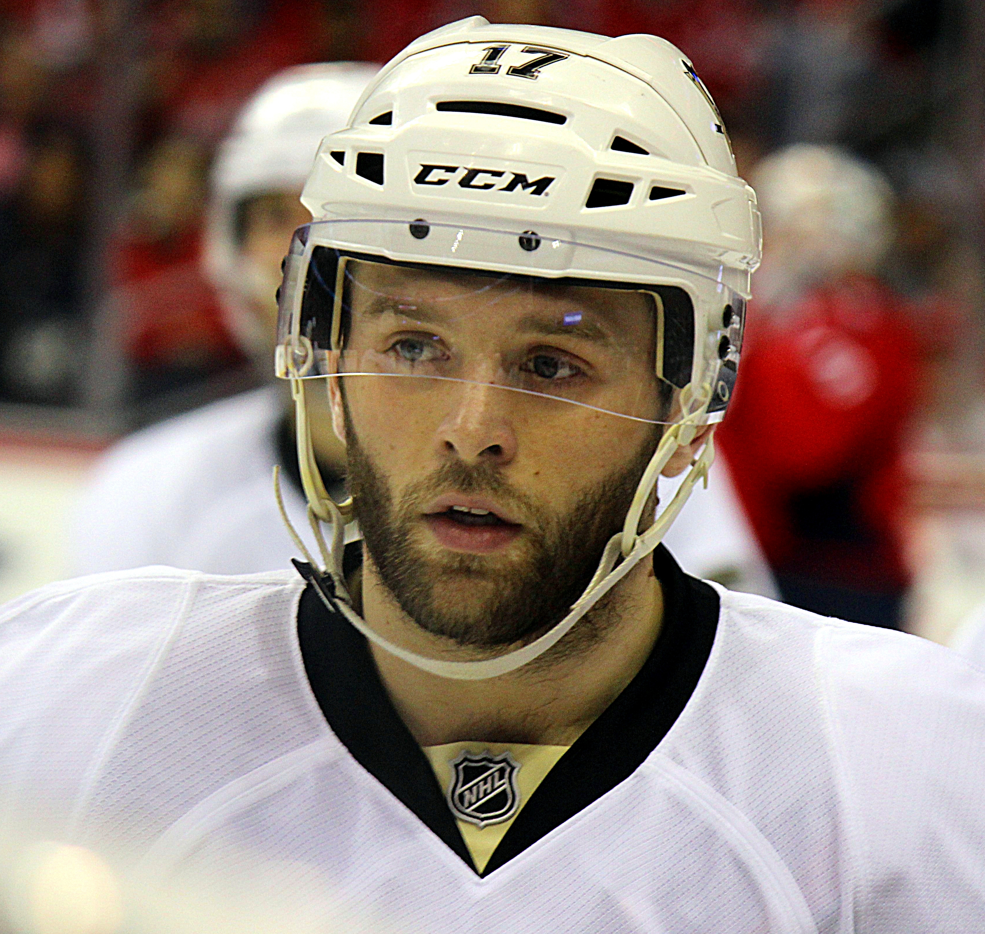 Pittsburgh Penguins forward Bryan Rust during a game against the Washington Capitals, Thursday, April 28, 2016 at Verizon Center in Washington, D.C.